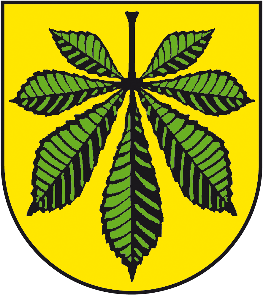 Coat of Arms of Verwaltungsgemeinschaft Kötzschau